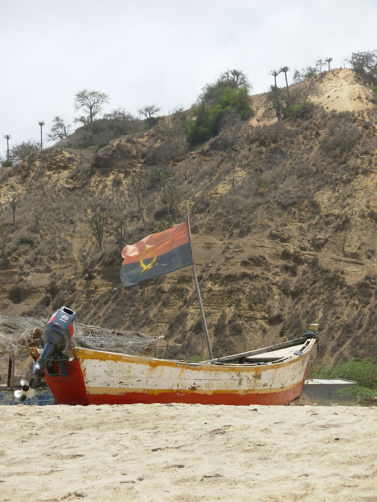 Fishing boat in Cabo Ledo, Angola